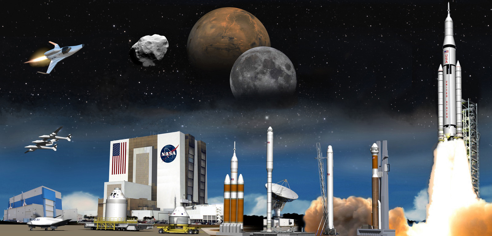 Modular rocket and spacecraft system.